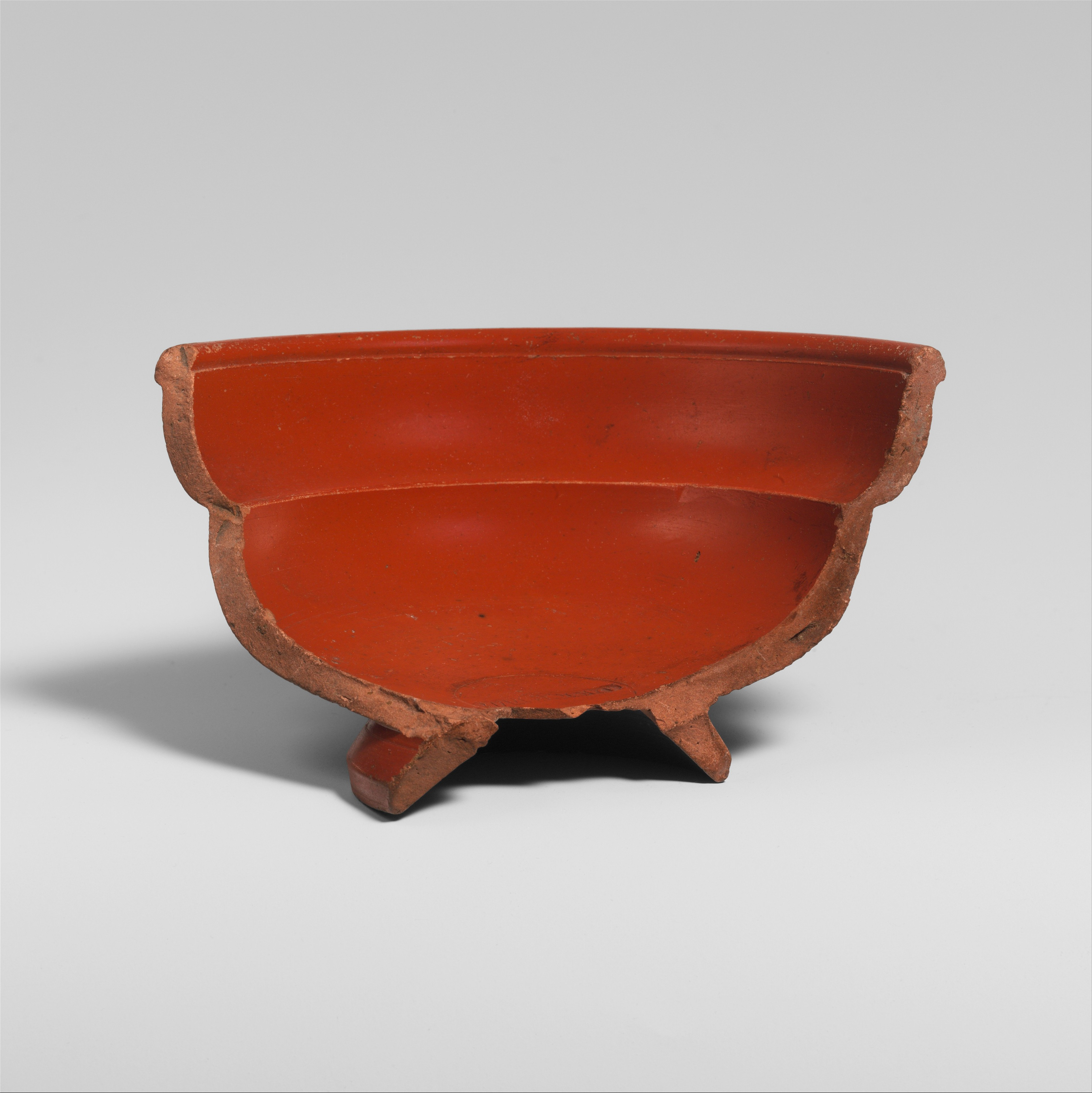 Inscribed; red gloss sigillata